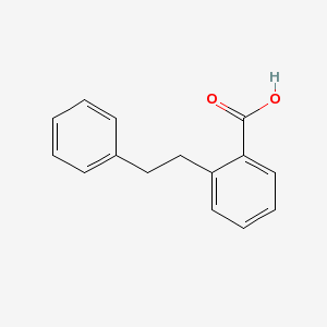 2-phenethylbenzoic acid